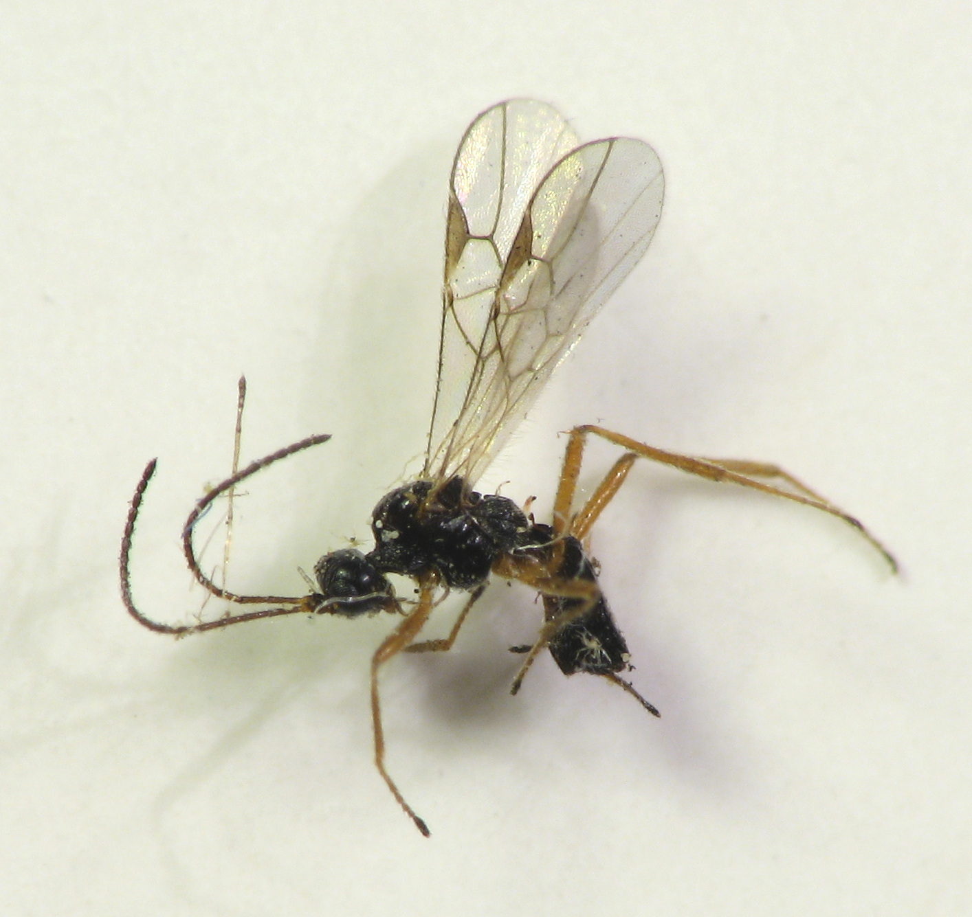 Braconid wasp, Blacus, female. Size: 2 mm. From goldenrod gall. Pennypack Restoration Trust, Montgomery County, Pennsylvania, USA.